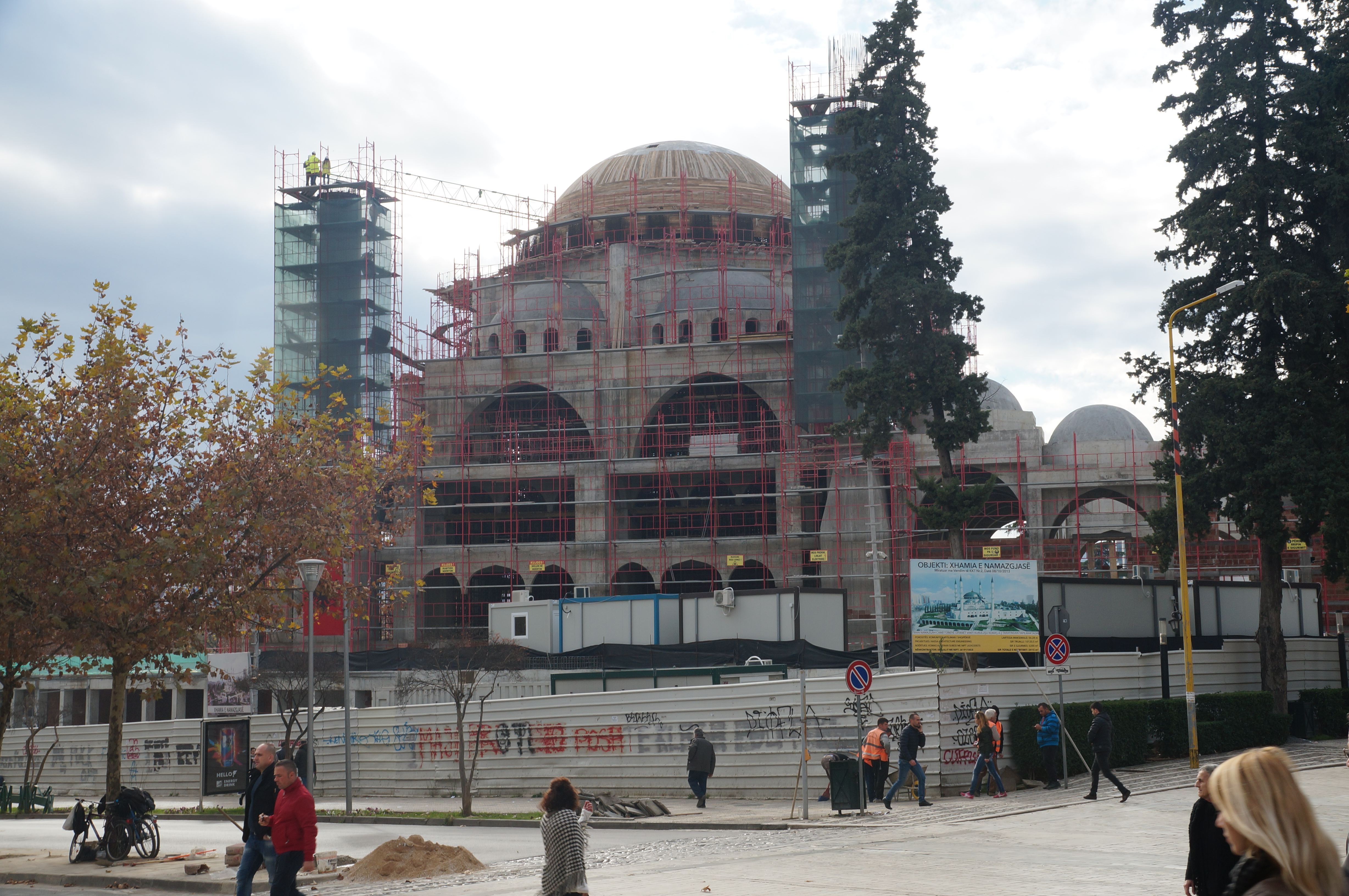 Construction of the new Namazgjeh mosque in Tirana